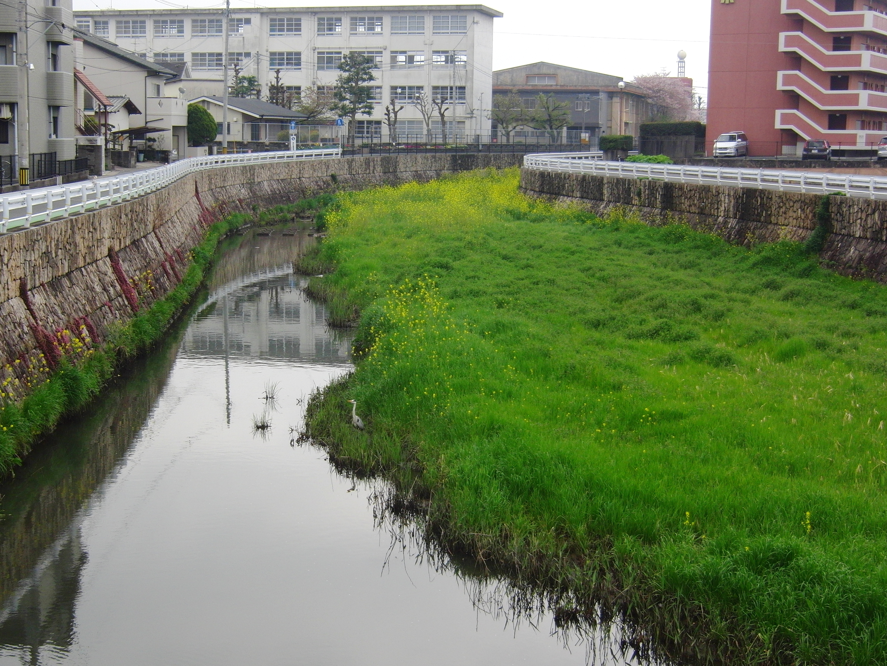 Kanakuzu River, Sawara-ku, Fukuoka, Japan.